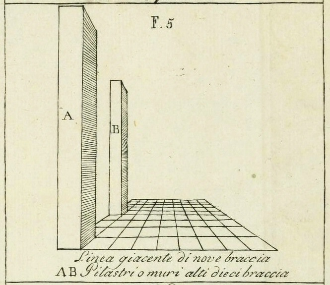 Alberti's diagram showing pillars in perspective on a grid in Della Pittura